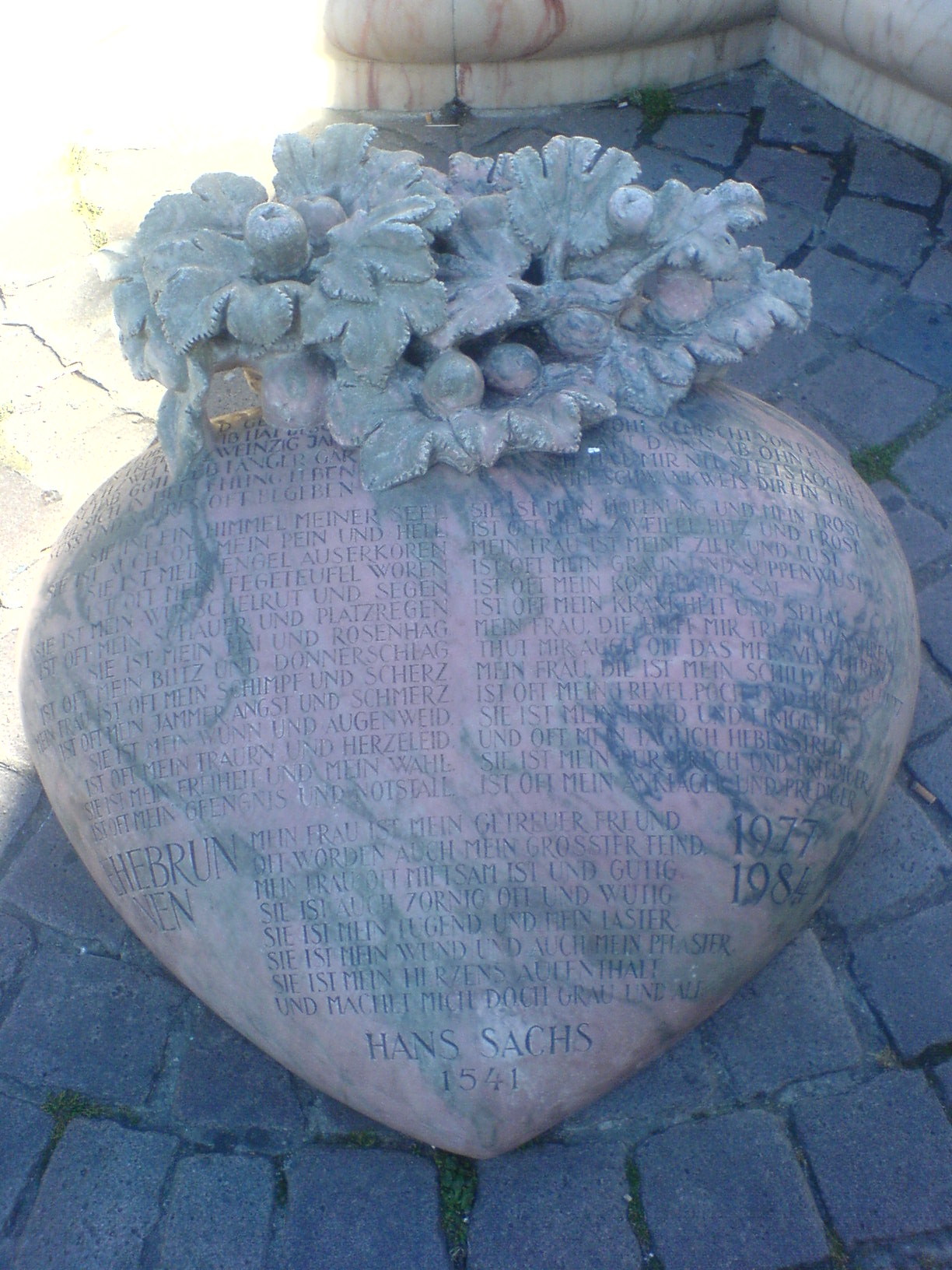 Germany, Bayern, Nuremberg, Ludwigsplatz